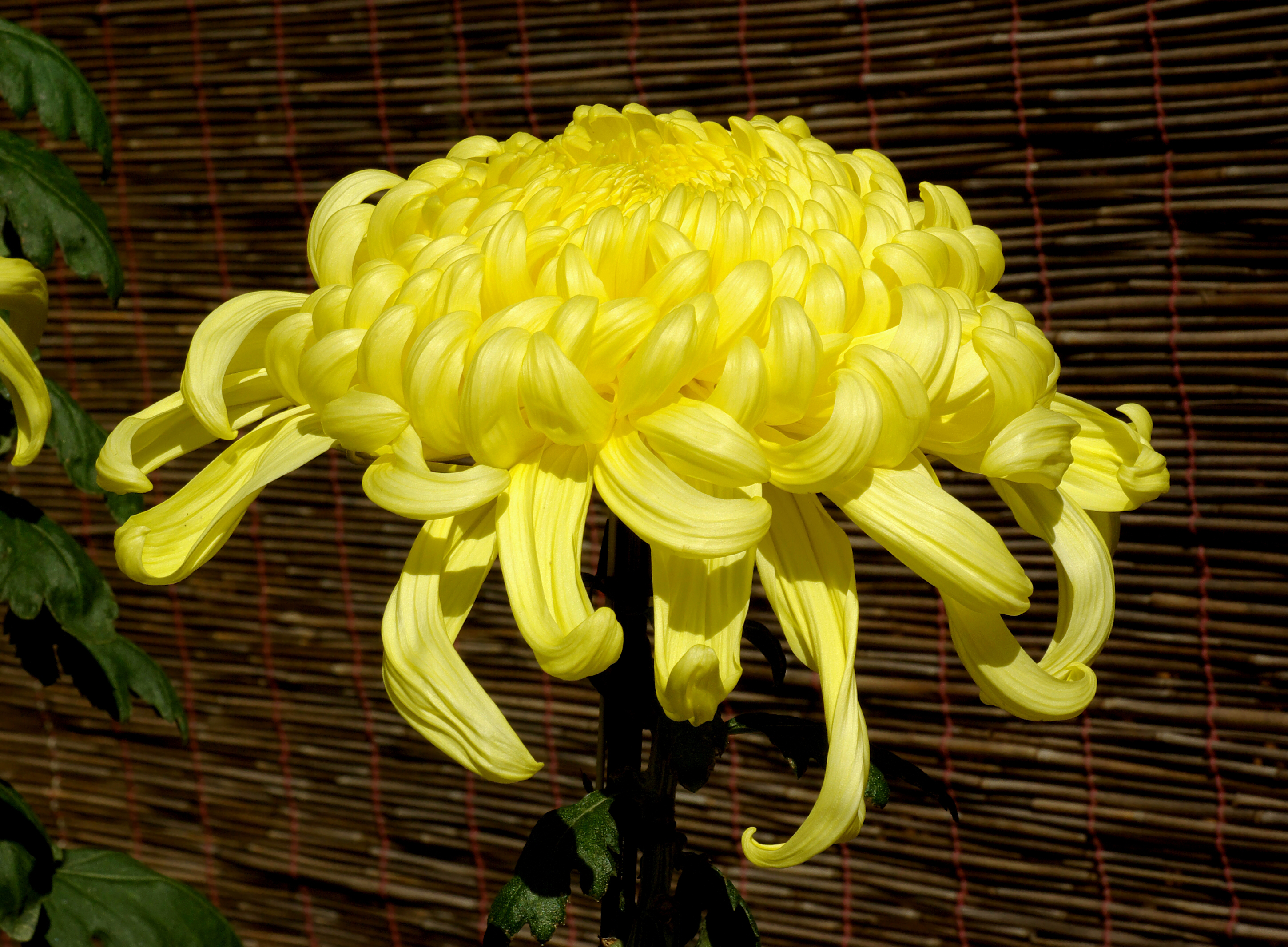 Chrysanthemum. The size of this flower is around 200mm. This picture was taken at Osaka, Japan.